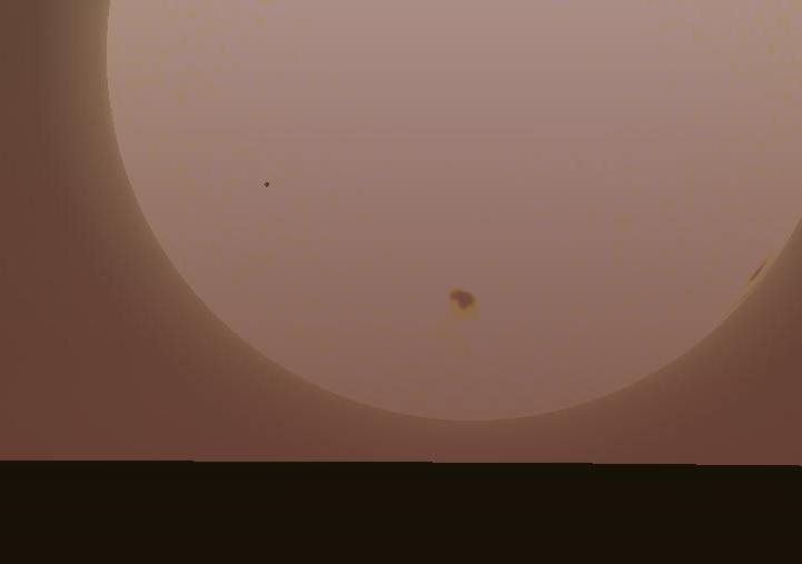 Transit of Mercury from Venus on June 3, 2011.